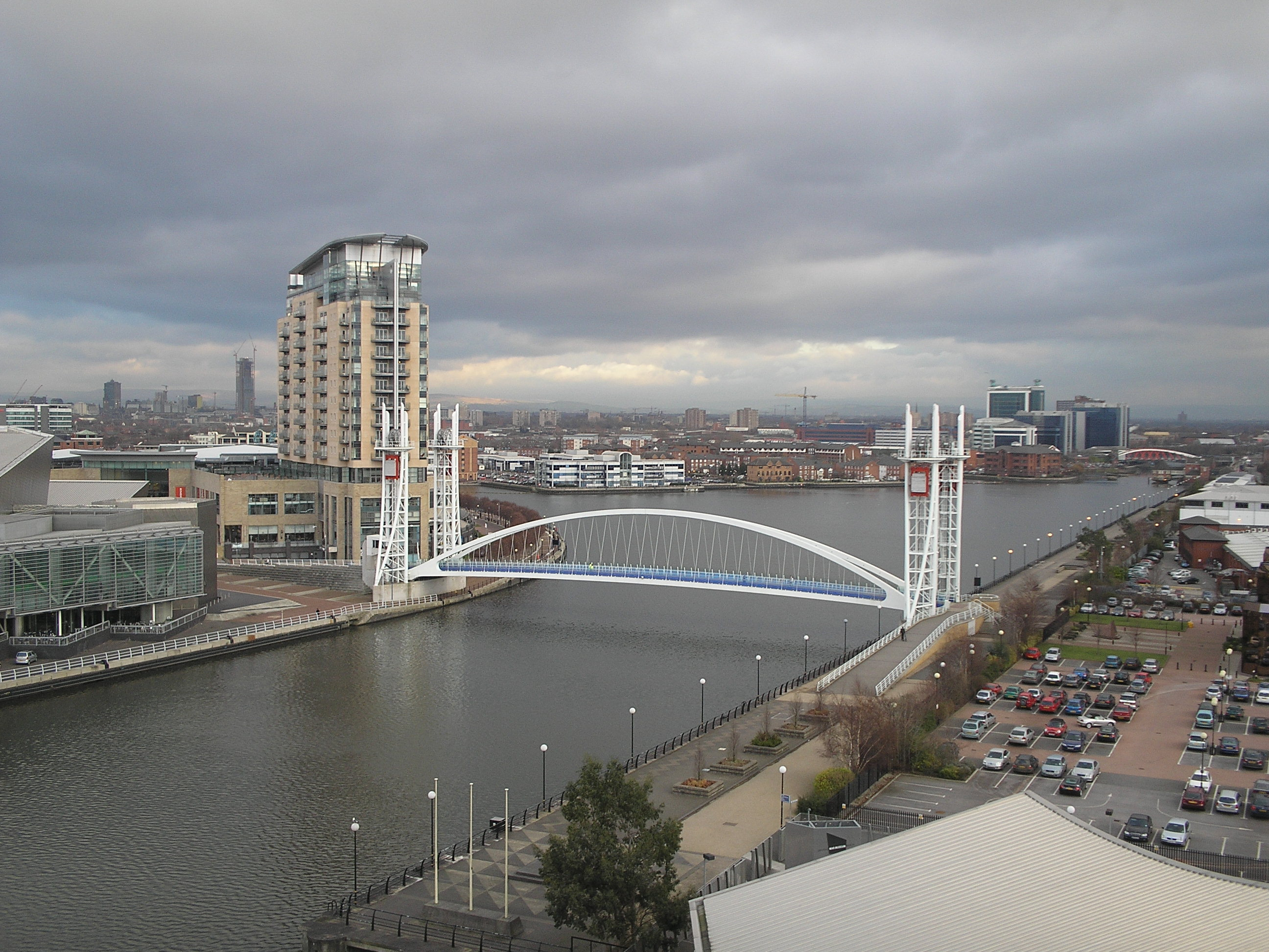 Salford Quays, Manchester. Note the Beetham Tower being built in the distance.